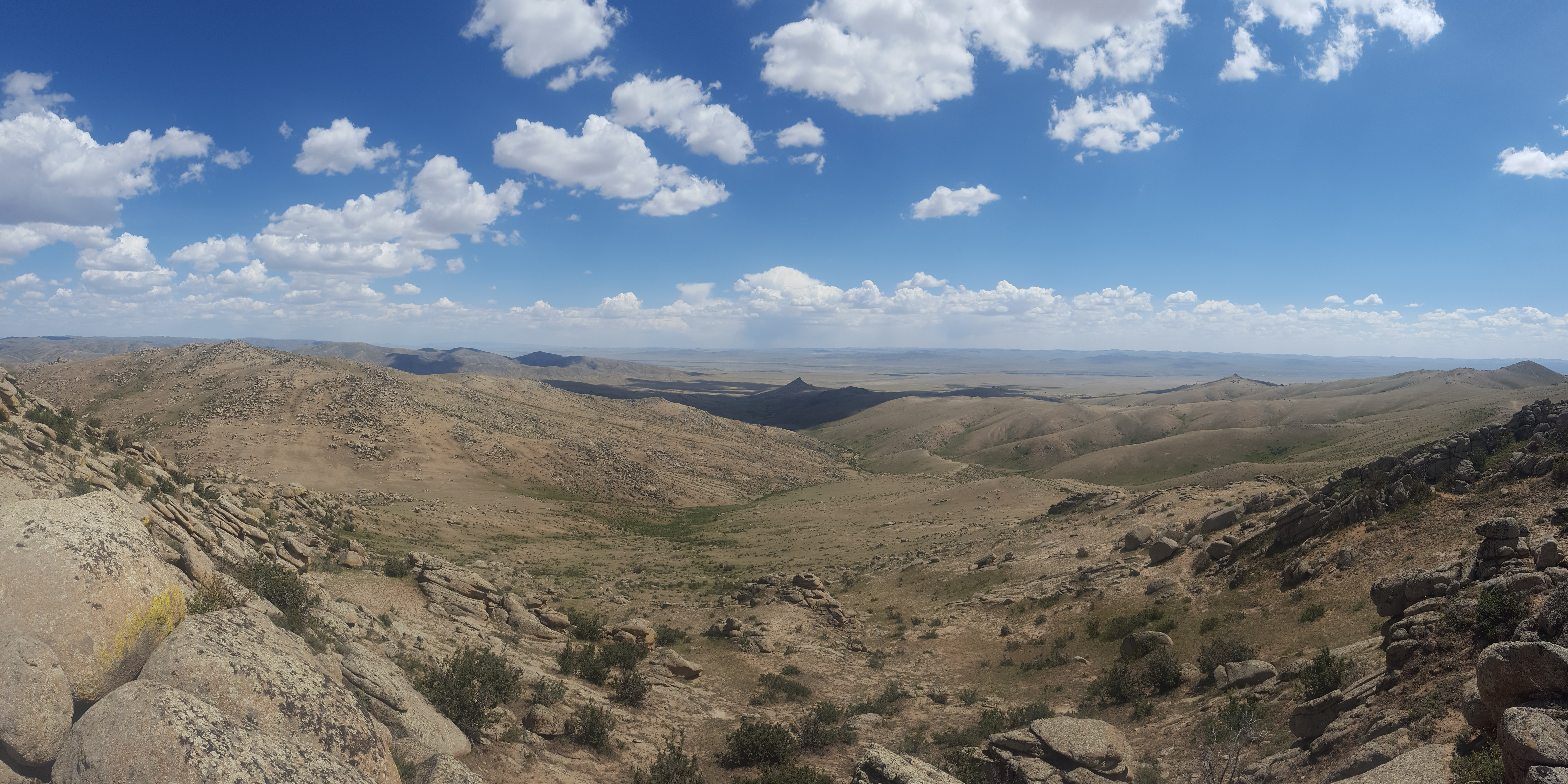 Panoramic view from Khustain Nuruu National Park, facing east in the center of the photograph